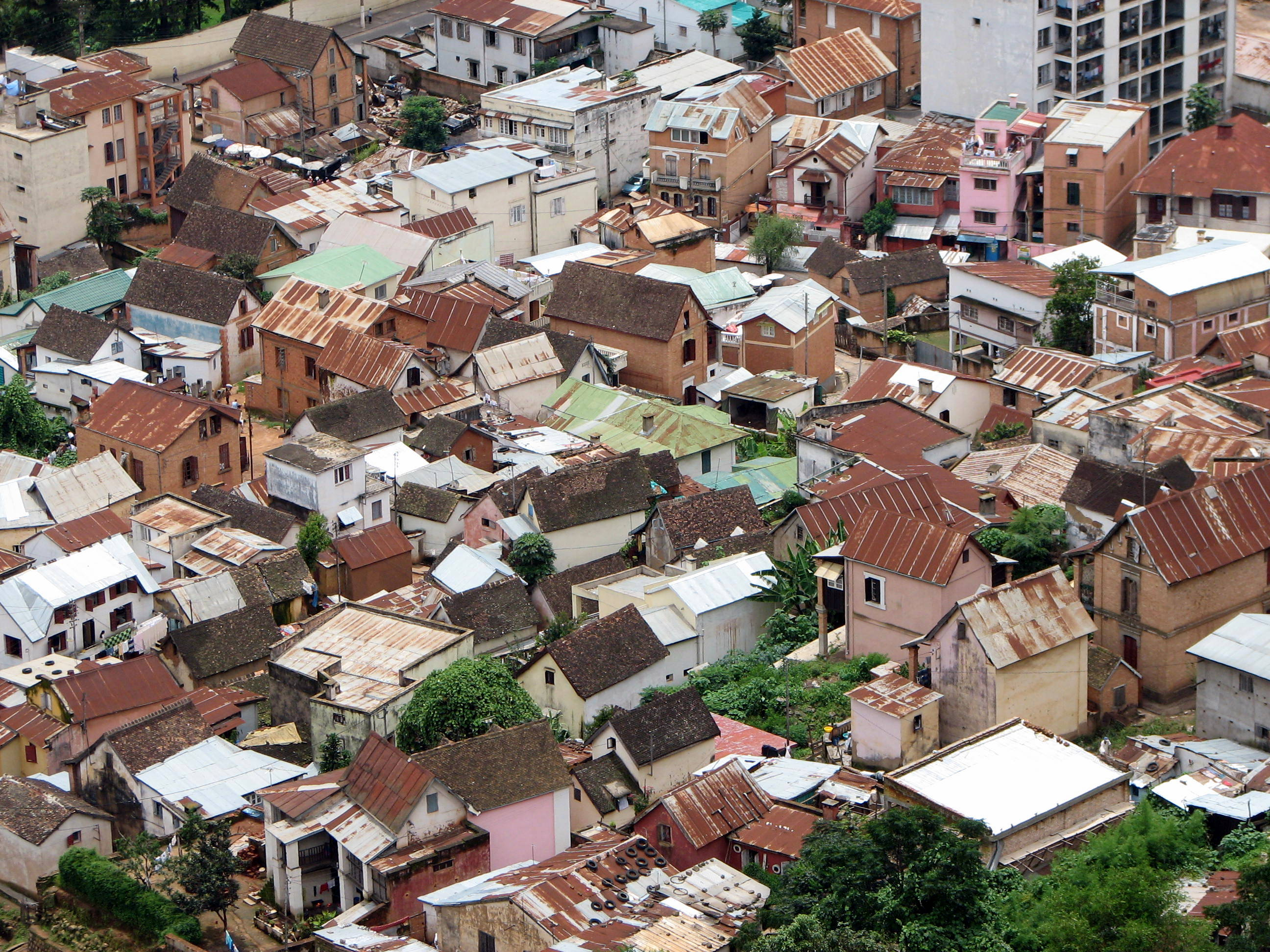 Roofs of Antananarivo, Madagascar